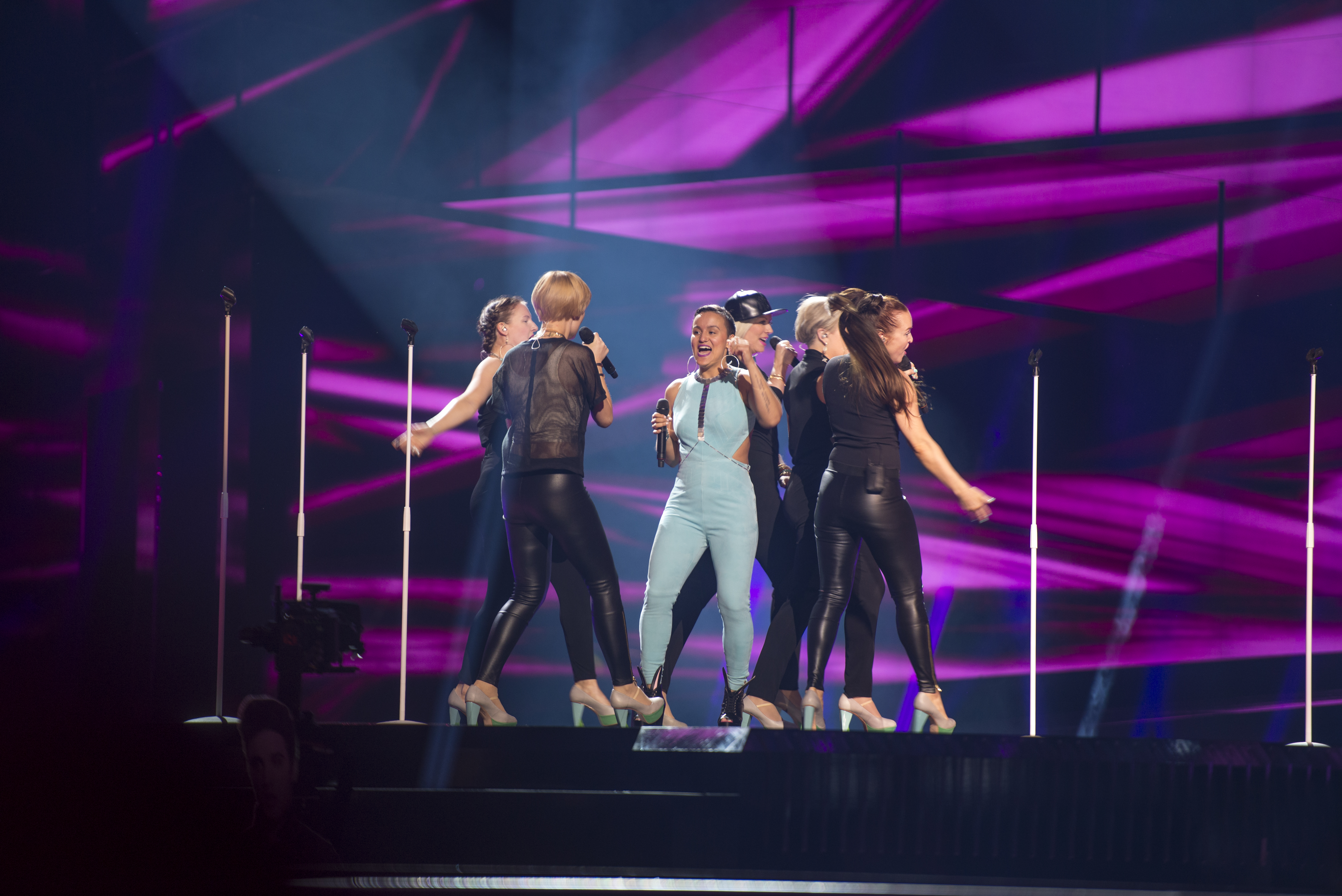 Sandhja representing Finland with the song "Sing It Away" during a rehearsal before the first semi final of the Eurovision Song Contest 2016 in Stockholm. (Help translate this text)